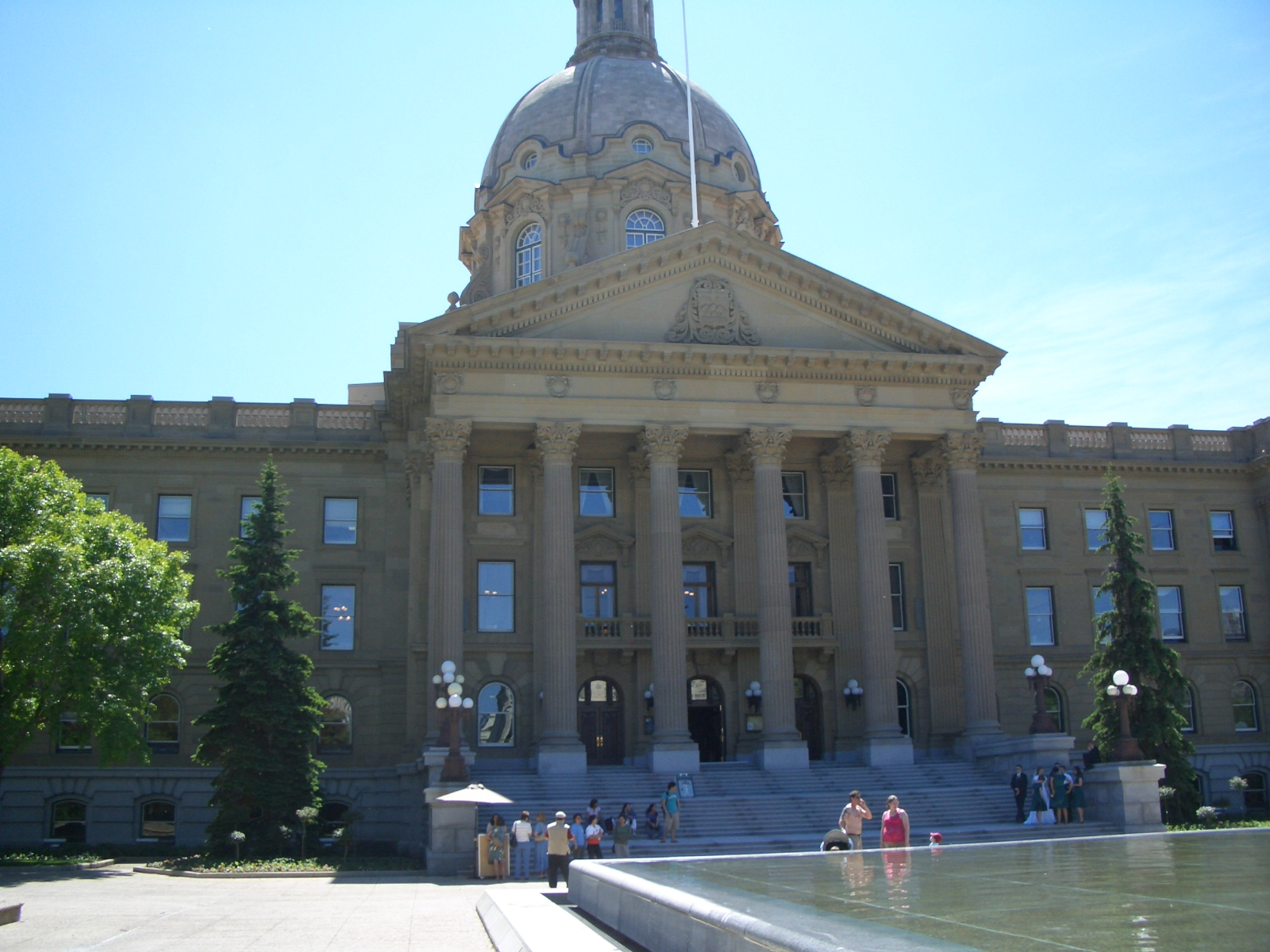 self authored by chen siyuan. released to public domain.